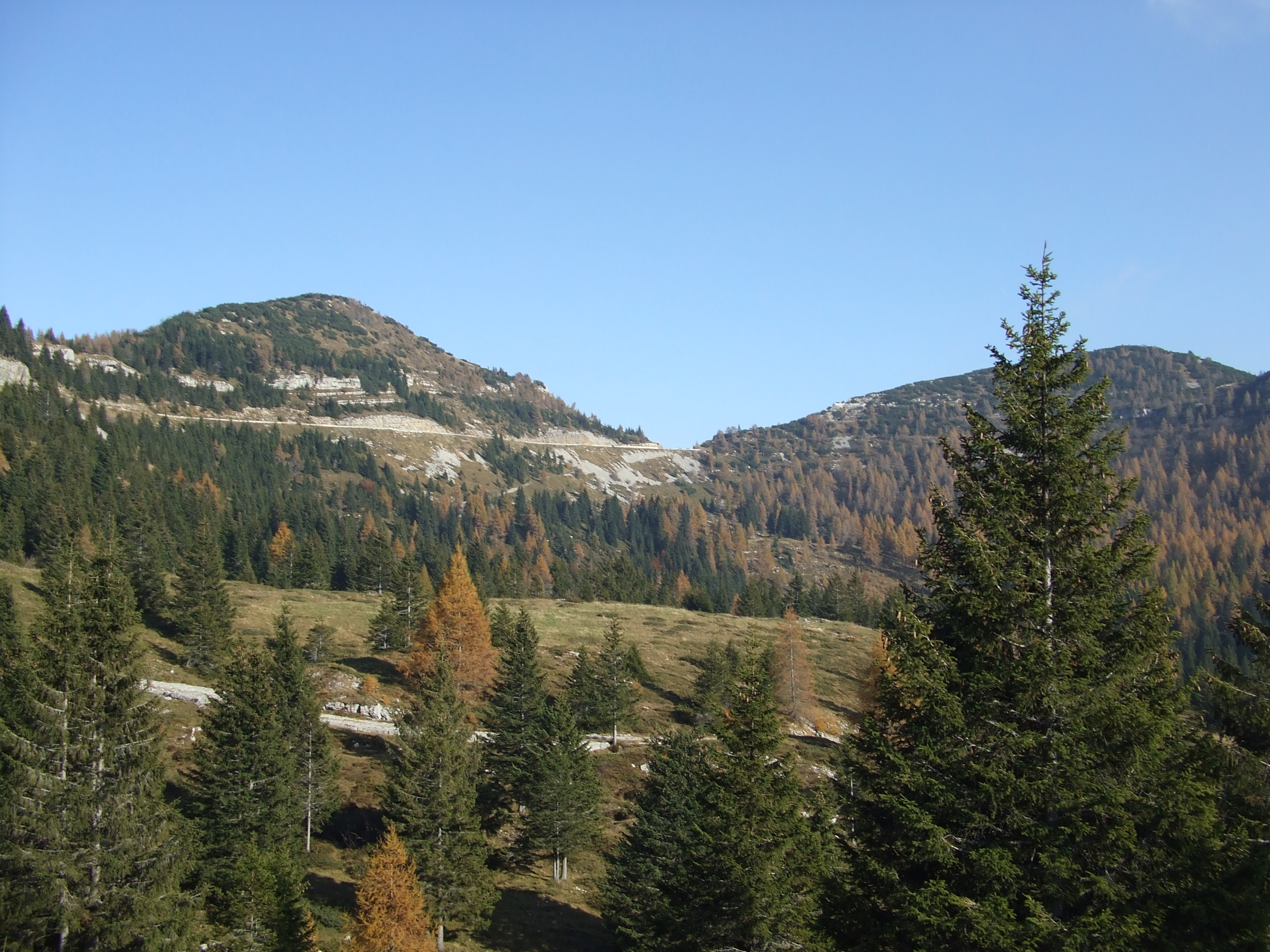 Sella di Valbona, Alps,Laste Mountains,Veneto,Northern Italy